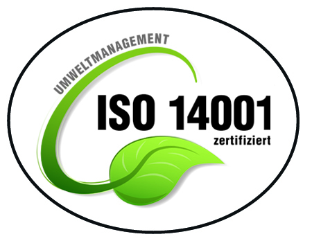 Logo: Quality certification